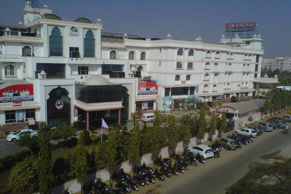 The Biyani Shikshan Samiti is formed by young, dynamic and result oriented team of highly qualified persons. It is registered under the Rajasthan Society Registration Act, 1958 having Reg. No. 500/Jaipur/97-98 dated 29th December 1997.